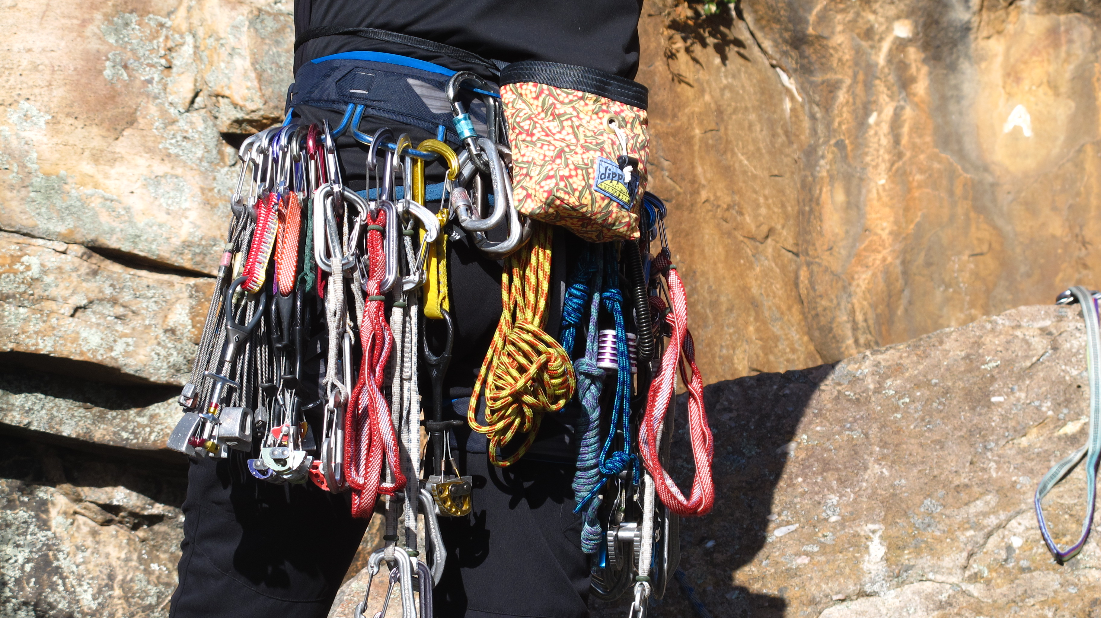 Gear for Trad climbing